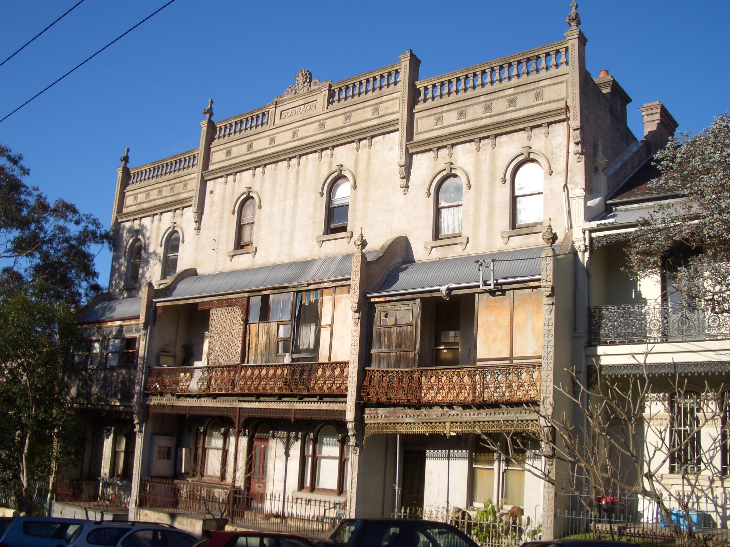 Ormond Street terraces, Paddington, Sydney